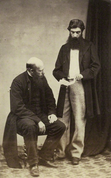 Horace Waller (1833–1896) English anti-slavery activist, missionary and clergyman, standing, with Henry Rowley, UMCA missionary (sitting).